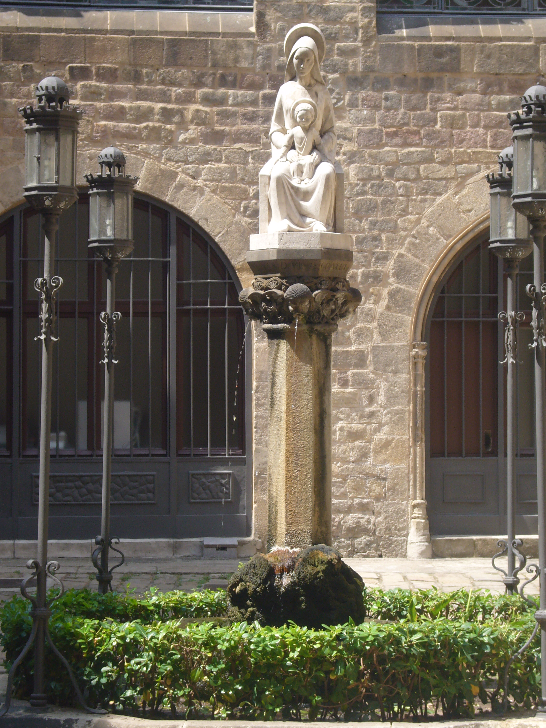 Palau Episcopal, Barcelona